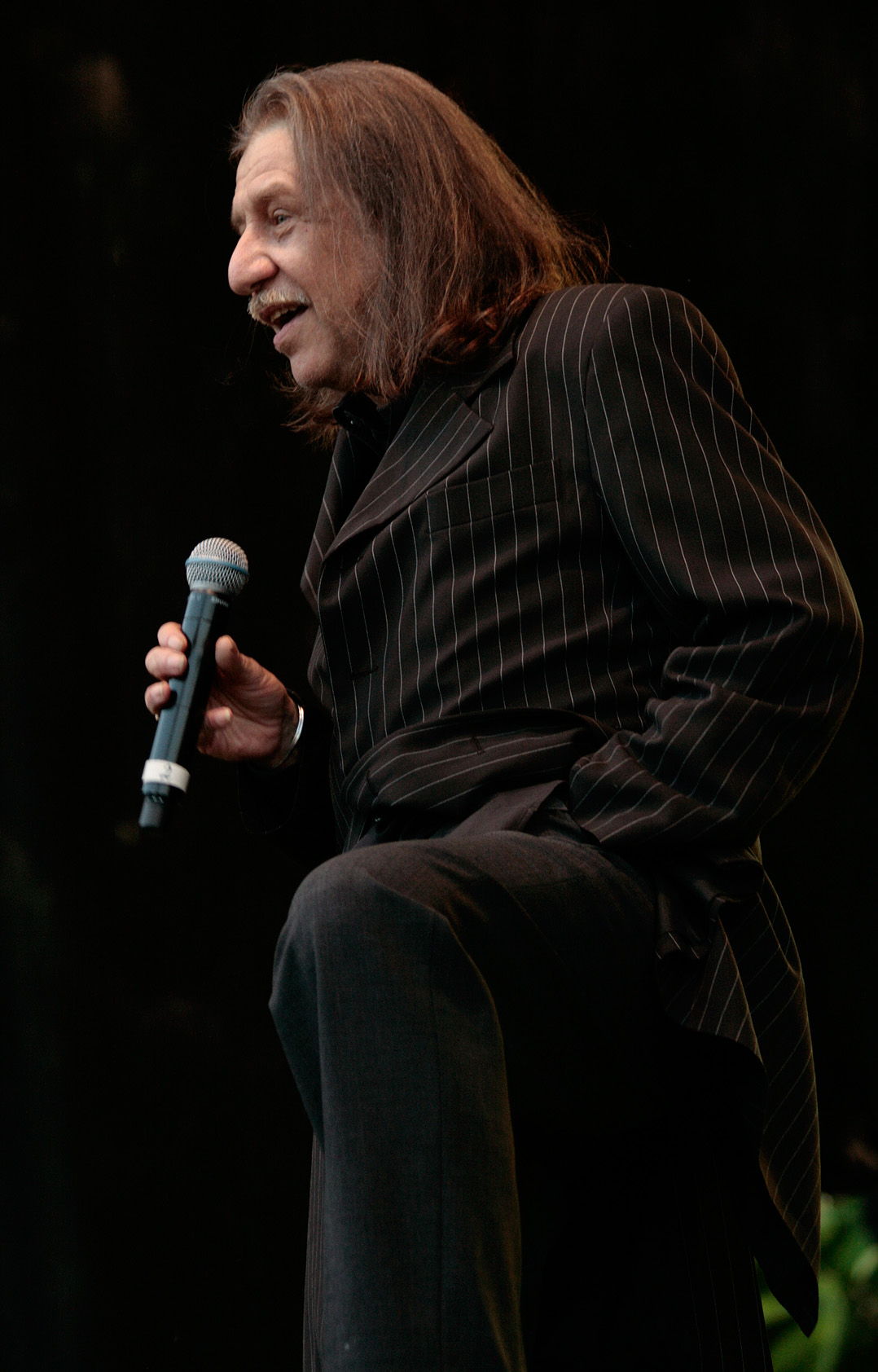 Ludwig "Wickerl" Adam, in concert with Claudia K.'s Woodstock Project at the Kaiserwiese (Prater, Vienna).